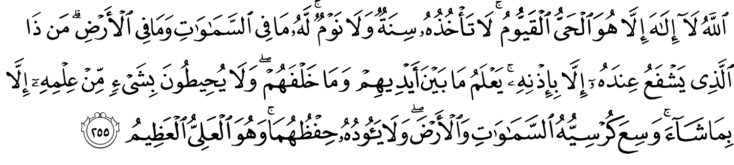 Al-Baqarah UsmaniScript